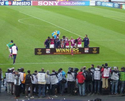 UEFA Women's Champions League Final 2012